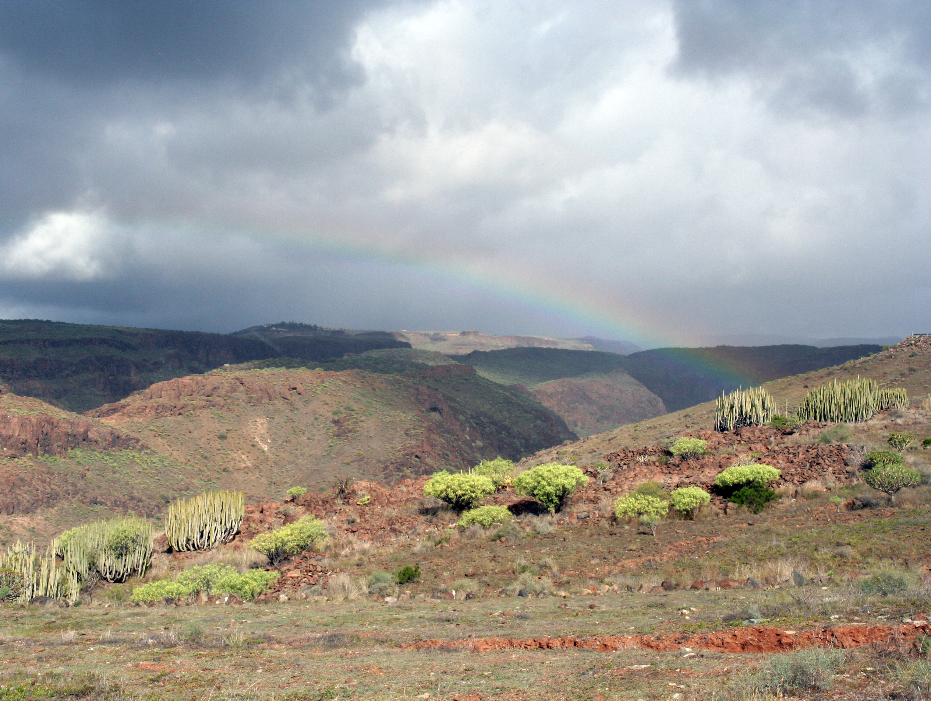 Rainbow